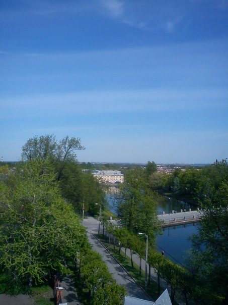 ingian river